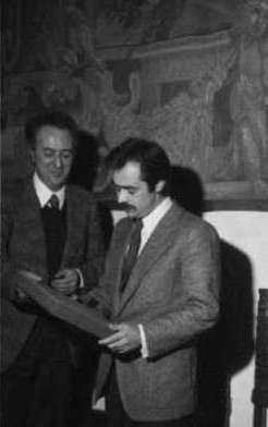 Florence, Palazzo Medici-Riccardi: Panagulis receive award by Presidente of Florence's Province, Luigi Tassinari.